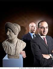 To the left is Ali Aboutaam. To the right is Hicham Aboutaam.